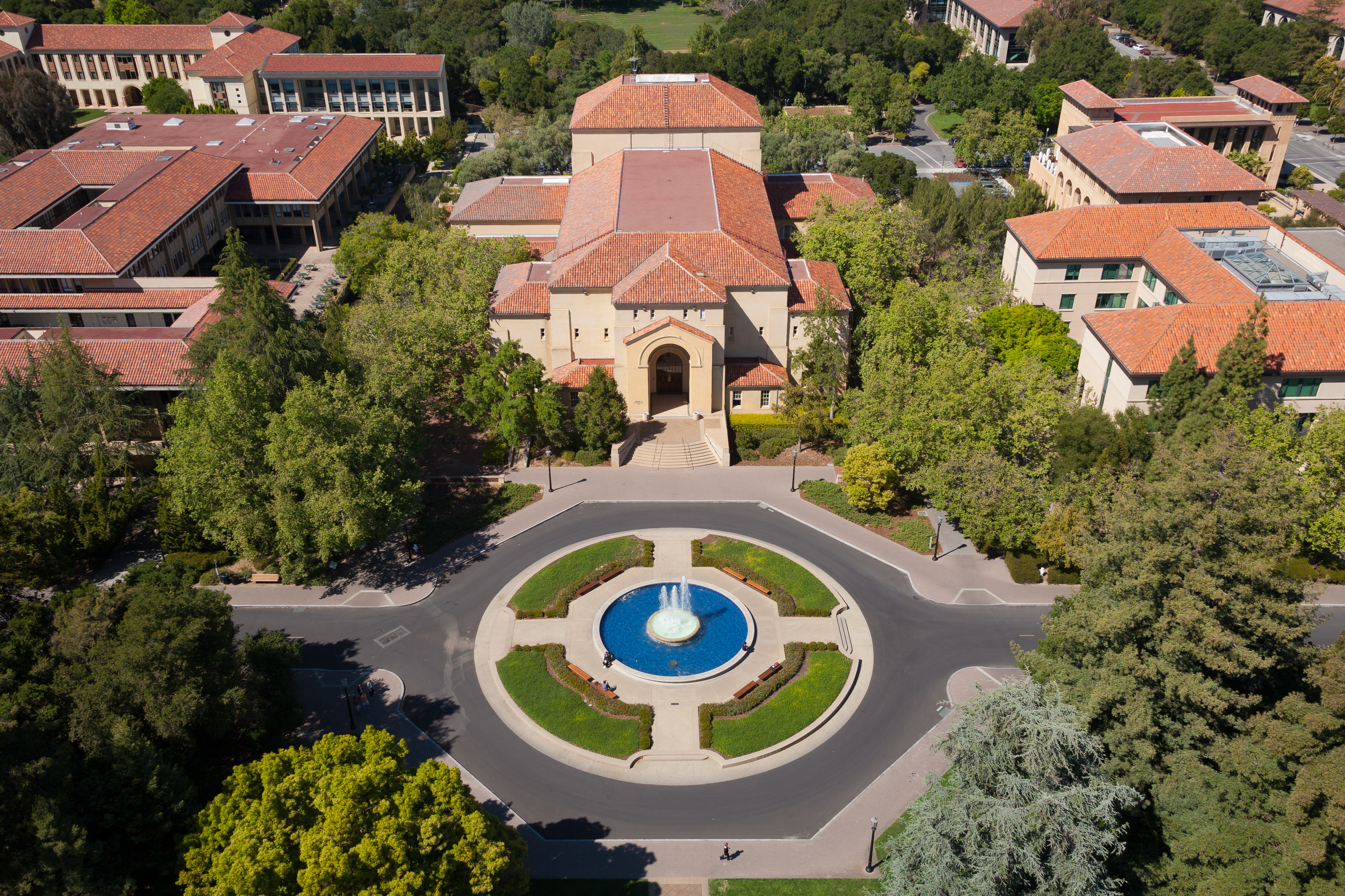 Stanford Memorial Auditorium, as seen from Hoover Tower in Stanford University, Stanford, California.